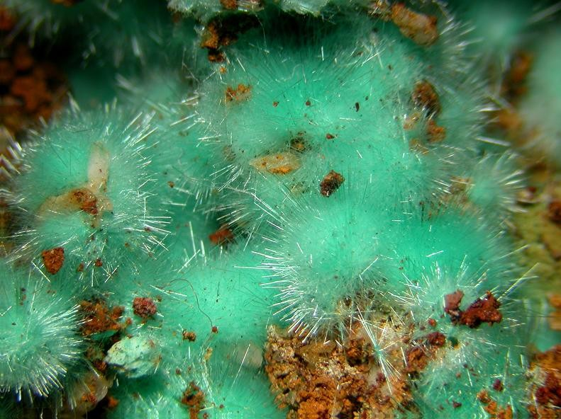 Mixite Locality: Lavrion Mines, Lavrion (Laurion; Laurium), Lavrion District Mines, Lavrion (Laurion; Laurium) District, Attikí (Attica; Attika) Prefecture, Greece Field of view 9 mm. Specimen and photo Leon Hupperichs.